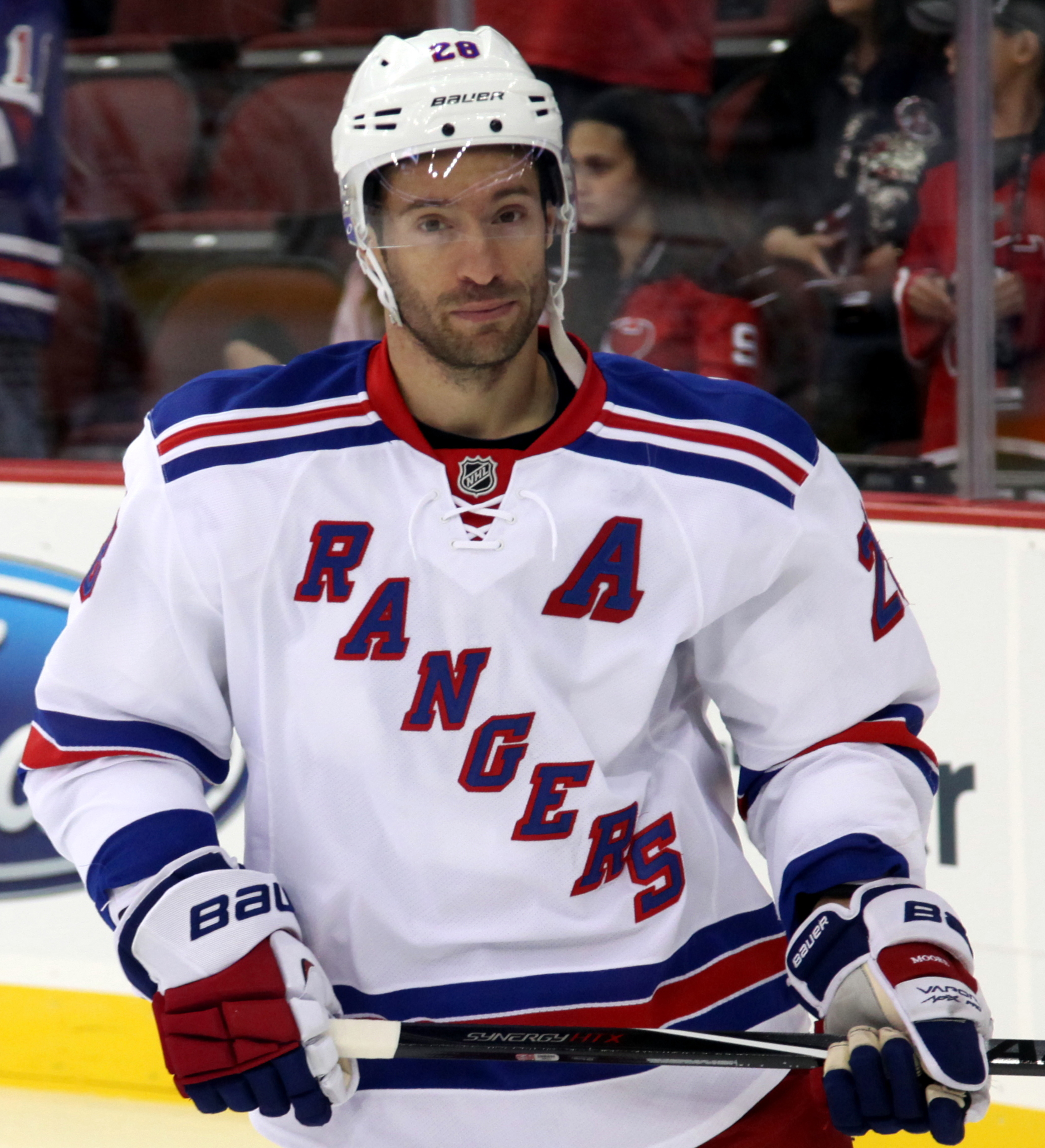 Moore as a Ranger in October 2014.